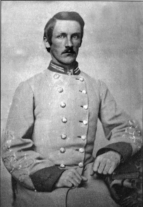 LT. James Langhorne Tayloe C.S.N. of Buena Vista (1841-1862) Roanoke, Virginia